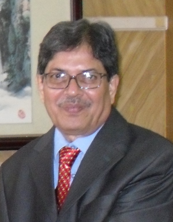 Photograph of Pradip Narayan Ghosh